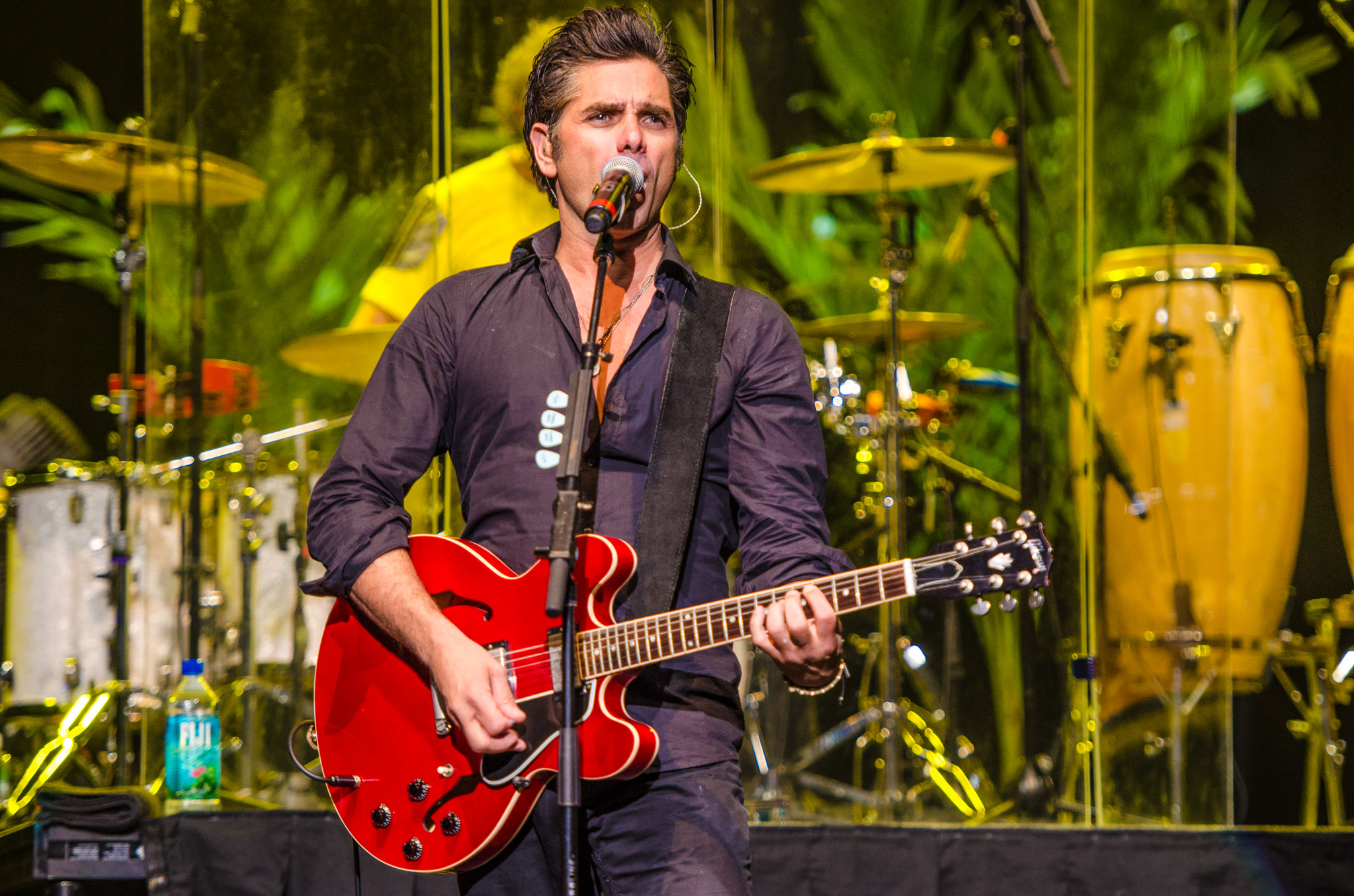 John Stamos playing the guitar for the Beach Boys at Neal S. Blaisdell Center, Honolulu, Hawaii, January 12, 2014. Photo by Peter Chiapperino